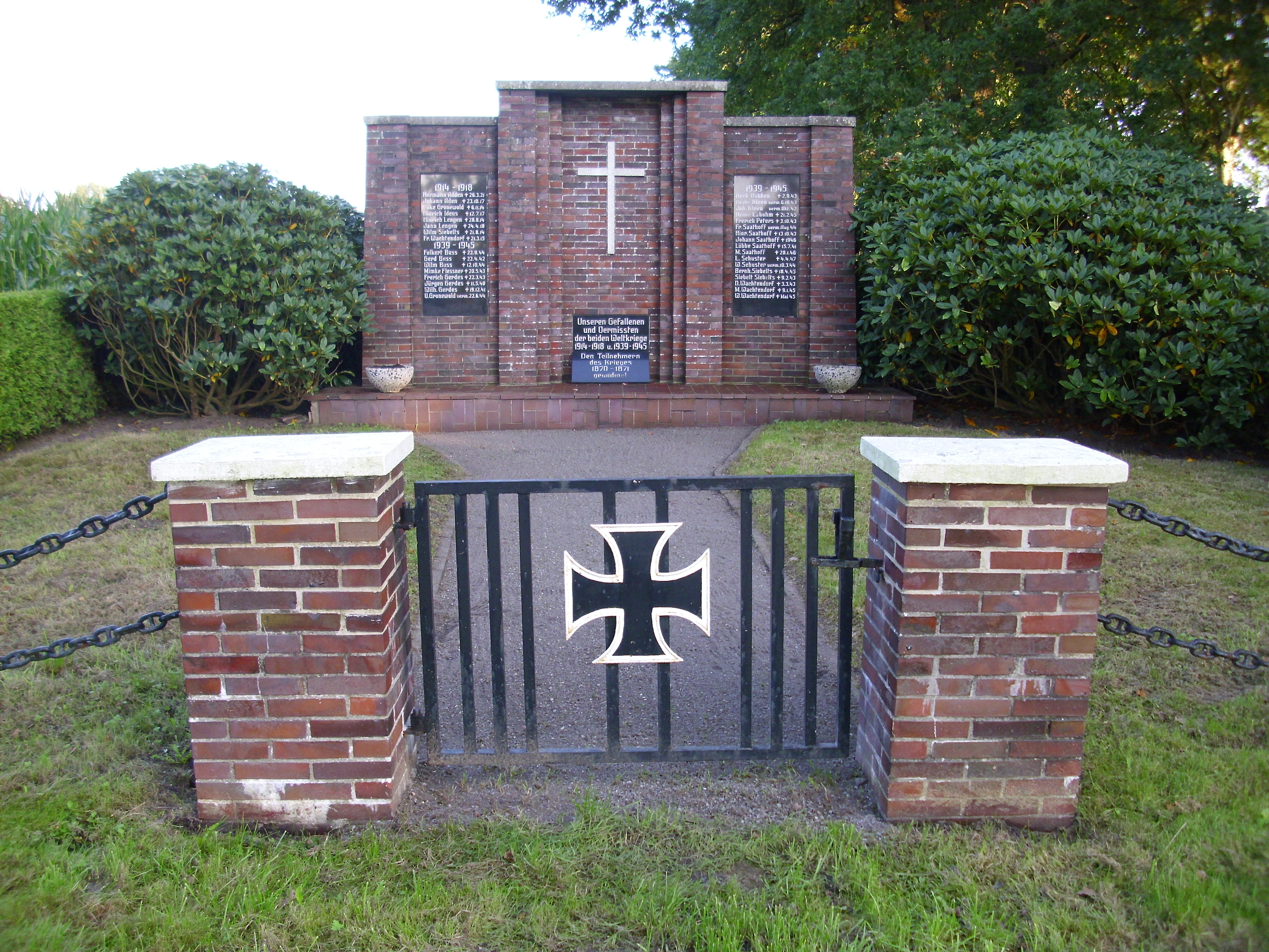 Memorial for the dead soldiers in Felde, Großefehn municipality, East Frisia, Lower Saxony, Germany, in October 2015